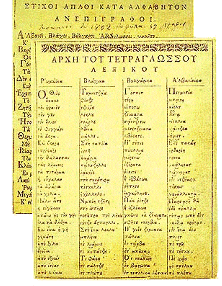 Introductory Education of Daniel of Moscopole